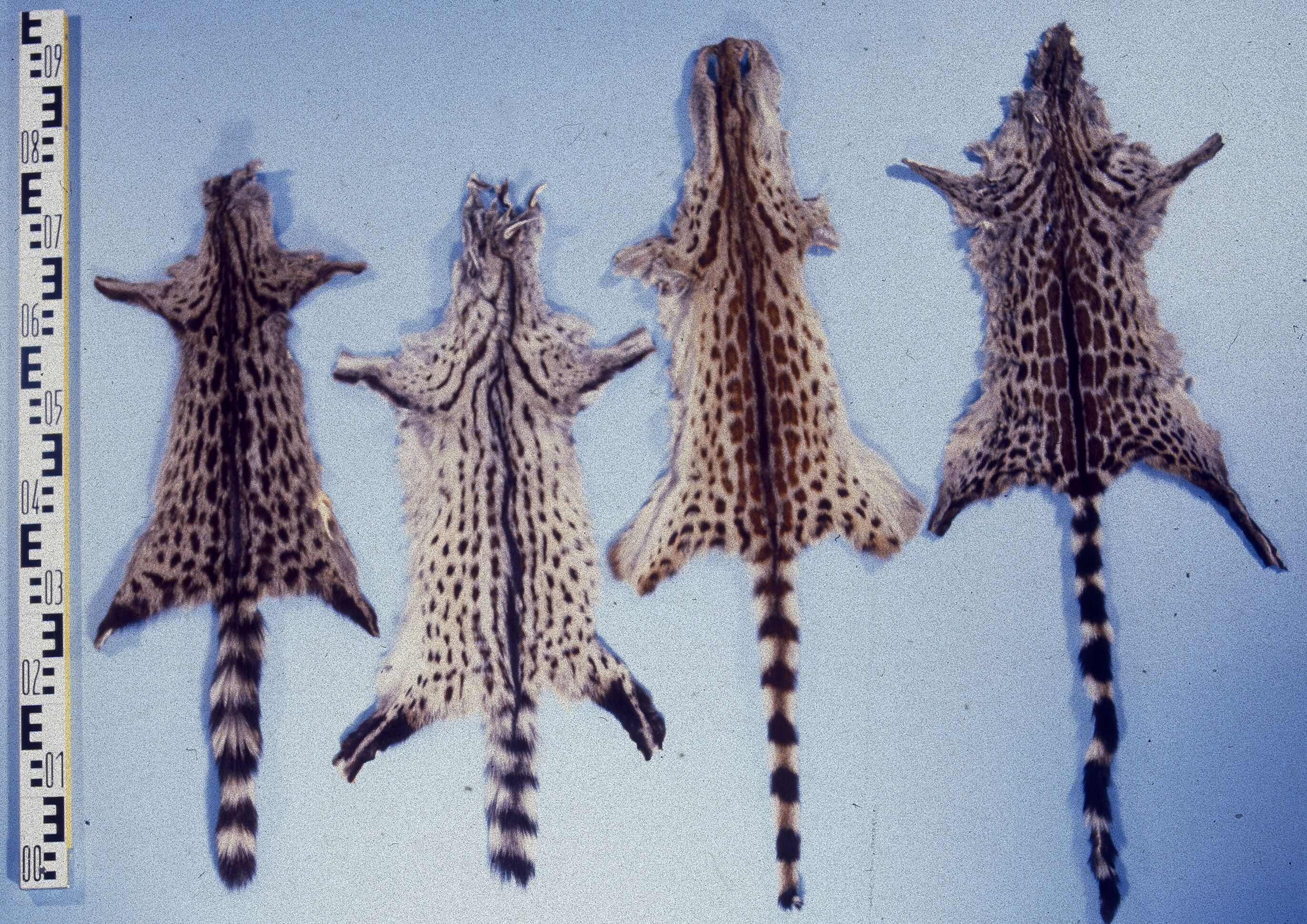 European genet (genetta genetta) & Large spotted genet (Genetta tigrina) . Fur skin collection, Bundes-Pelzfachschule, Frankfurt/Main, Germany